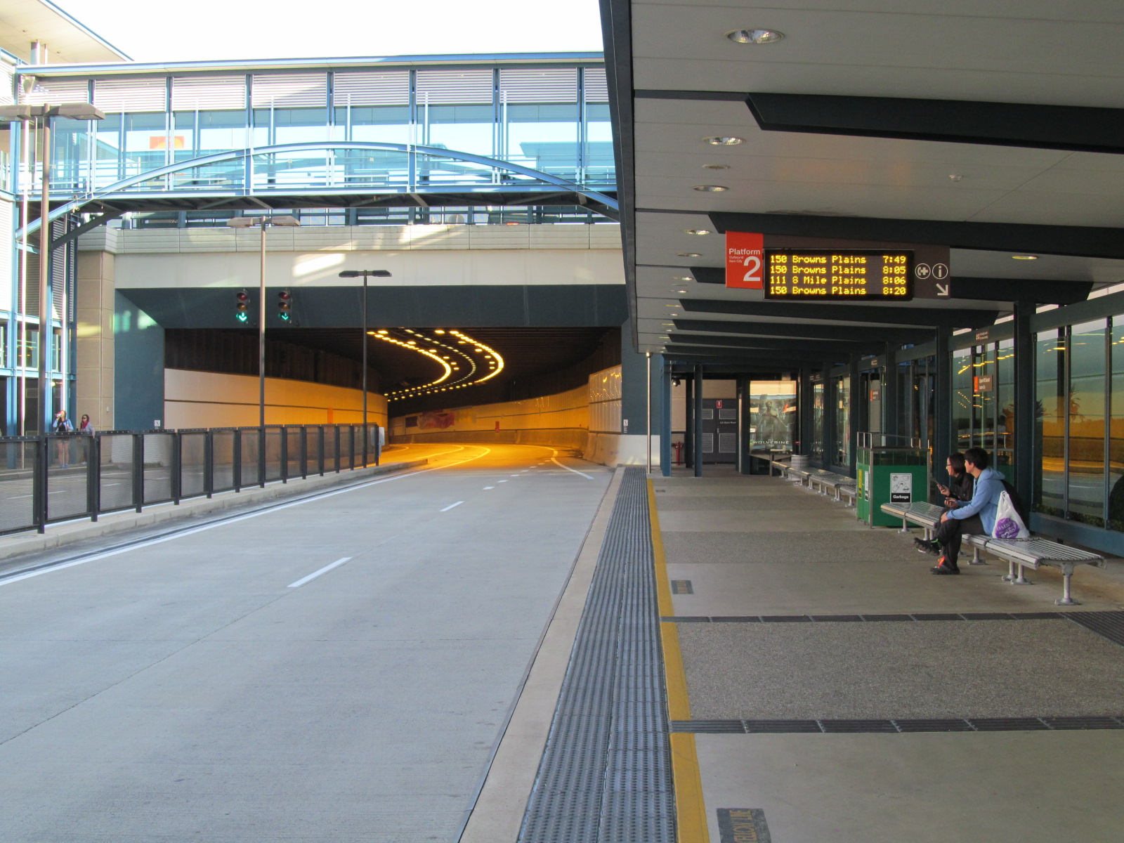 Garden City busway station, Upper Mount Gravatt, Queensland